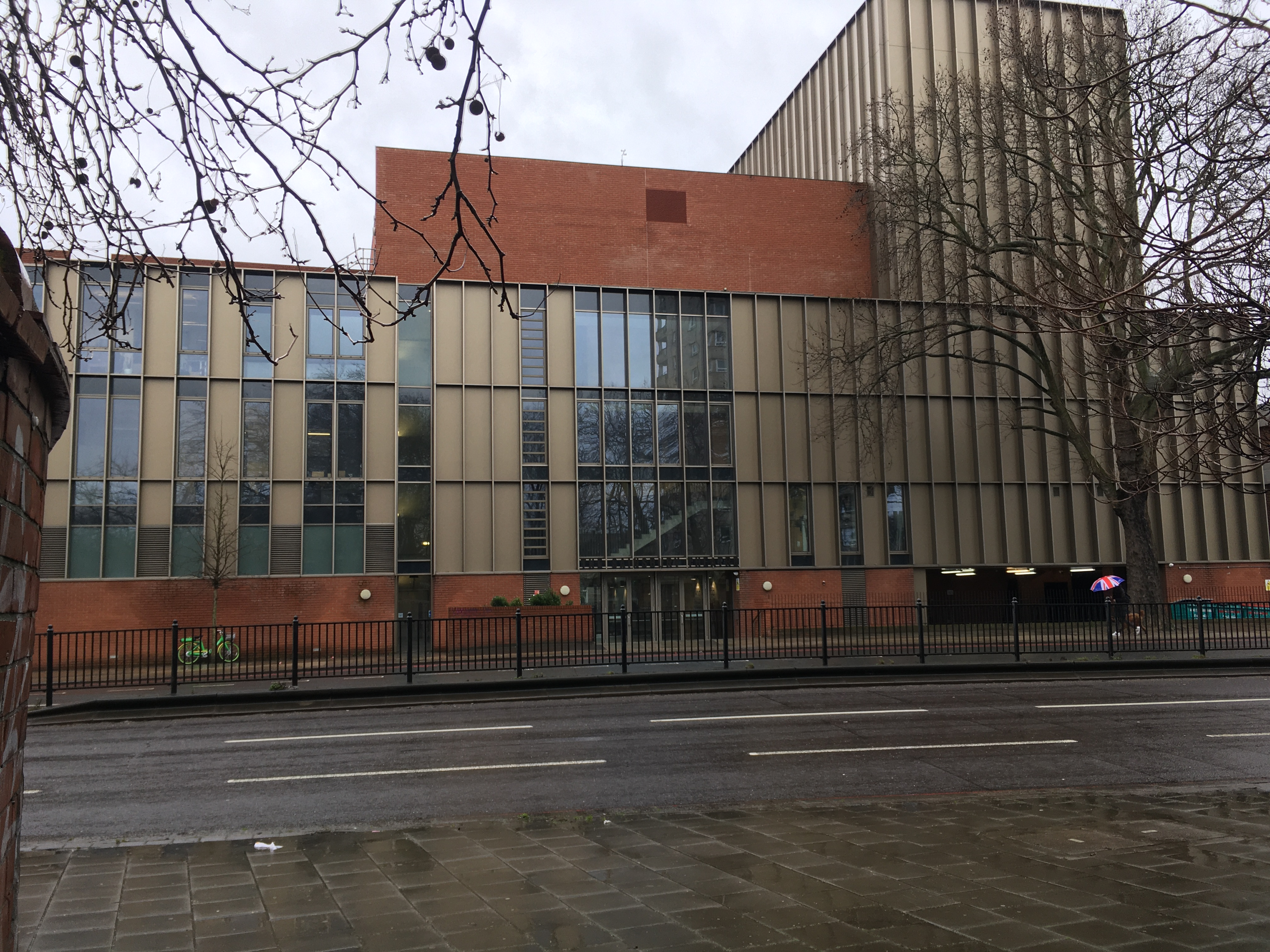 The London Academy of Music and Dramatic Art, taken on 24 February 2020